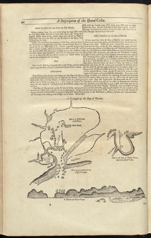 Zoom into this map at . Publisher: W. Mount and T. Page Date: 1737 Location: Bahía de Cochinos (Cuba), Bahía Honda (Cuba) Dimensions: 22 x 24 cm., on sheet 46 x 29 cm. Scale: Scale not given Reference: Phillips, 1157 Call Number: G1106.P5 E54 1737